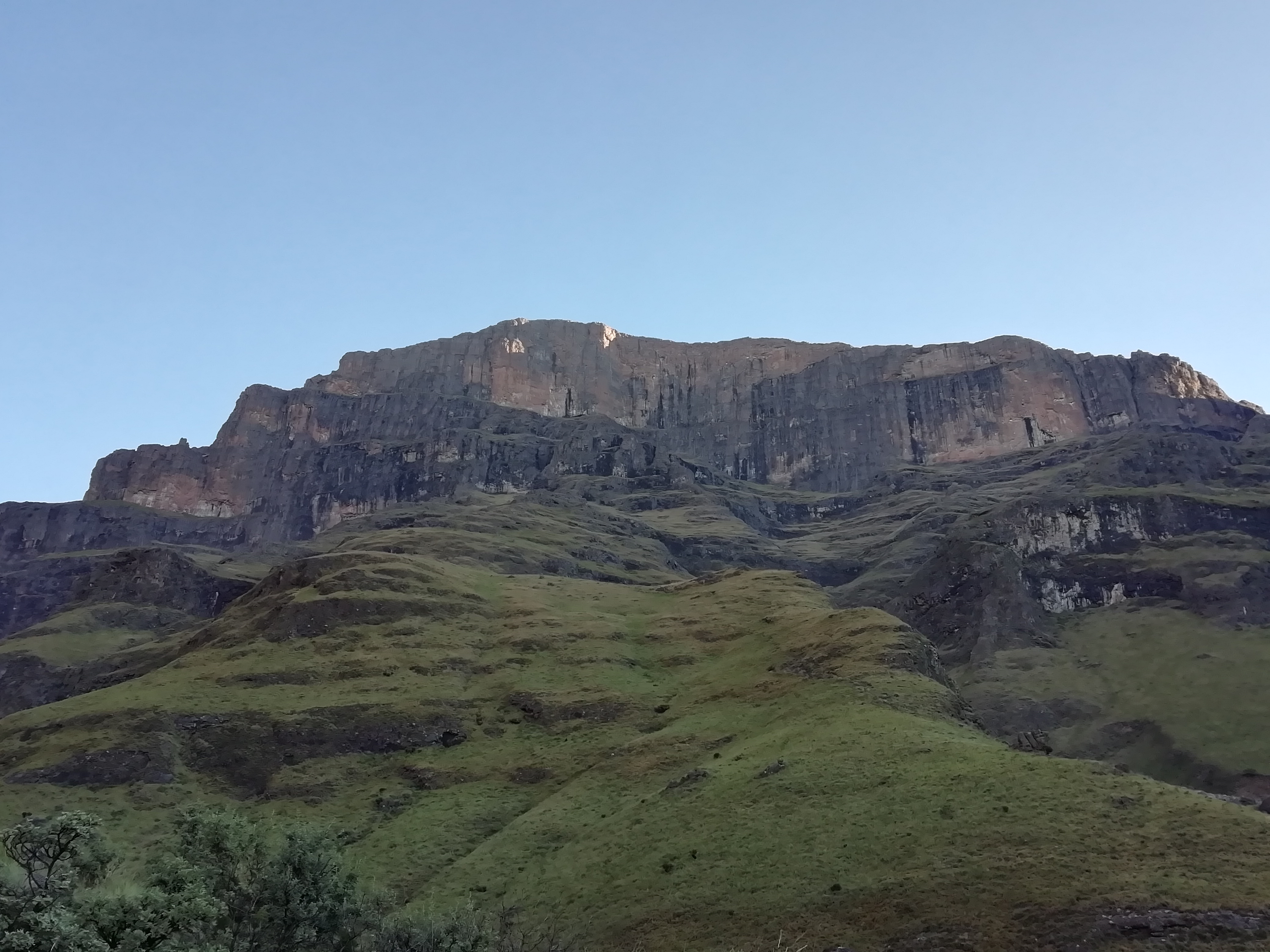 Champagne Castle from as seen from below at Keith Bush Camp. Altitude of photo 2500m